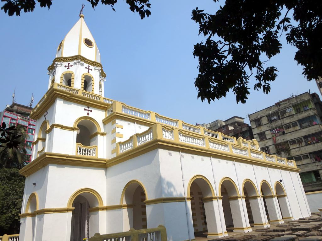 The Armenian Church of the Holy Resurrection (1781) at Dhaka, Bangladesh, recalls a community which has since moved away.